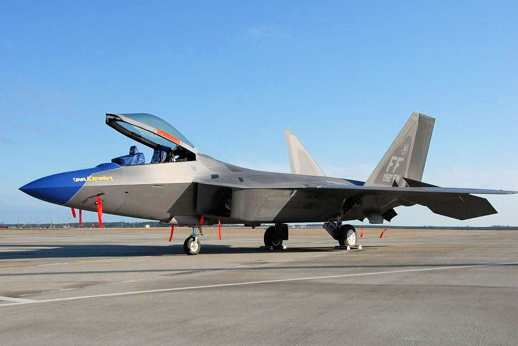 The 192d Fighter Wing’s F-22 Raptor flagship was detailed with a blue nose in preparation for the annual 1st FW/192d Maintenance Professional of the Year Award Banquet. The F-22’s nose was prepared to emulate the P-51 Mustang blue nose used during World War II by the 328th Fighter Squadron. Stationed at RAF Bodney, England during WW II, the “Blue Nosed Bastards of Bodney” were led by 328th Major George E. “Ratsy” Preddy, Jr. Major Preddy recorded over 26 aerial victories with his Mustang “Cripes A’Mighty,” and became the Top Mustang Ace during WW II. A barber pole was added to the right side identifying Crew Chief Art “Snoot” Snyder’s second job. Besides being crew chief for Major Preddy, SSgt Snyder had also been a barber for the 328th.